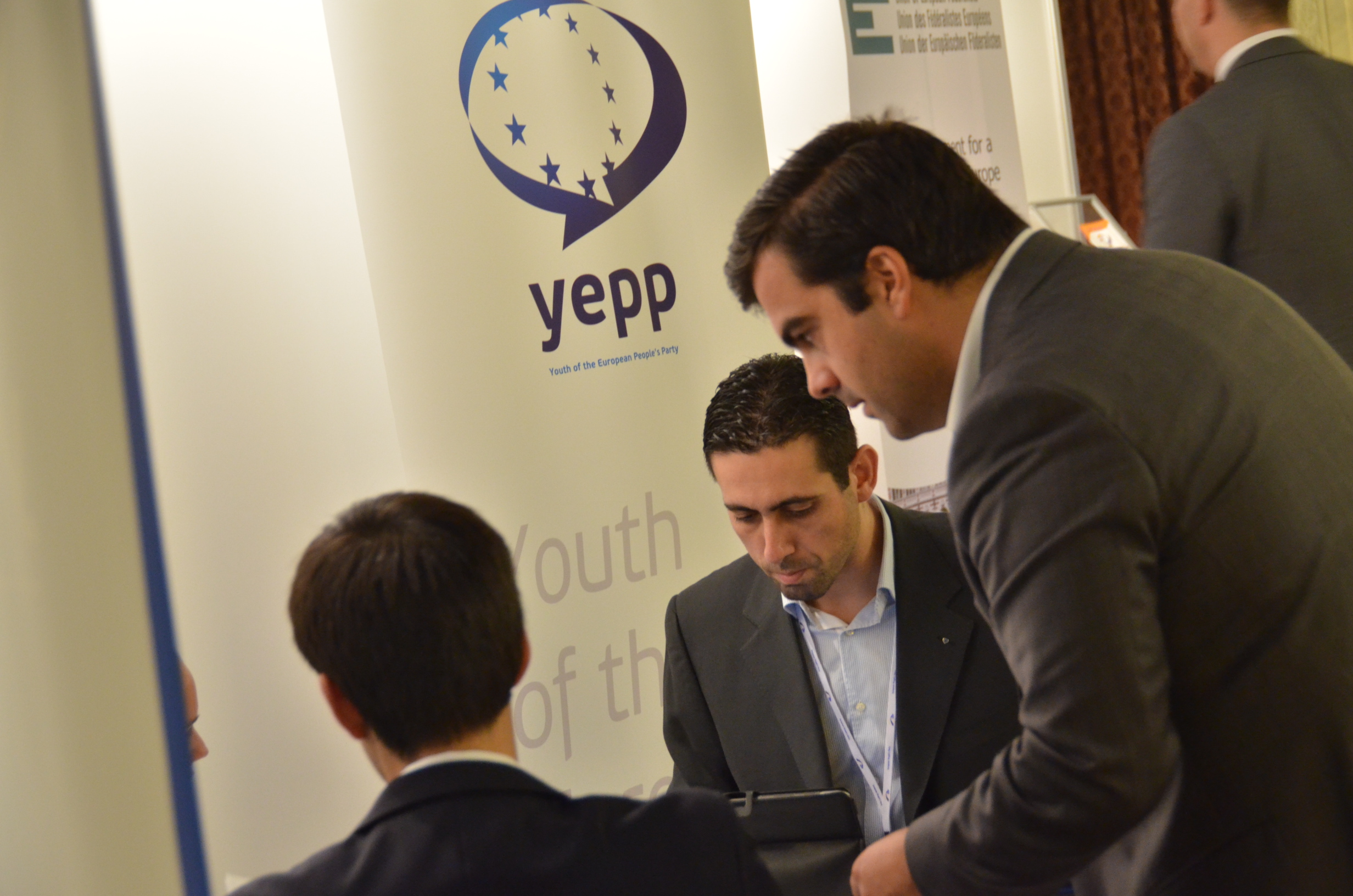 EPP_Congress_3221